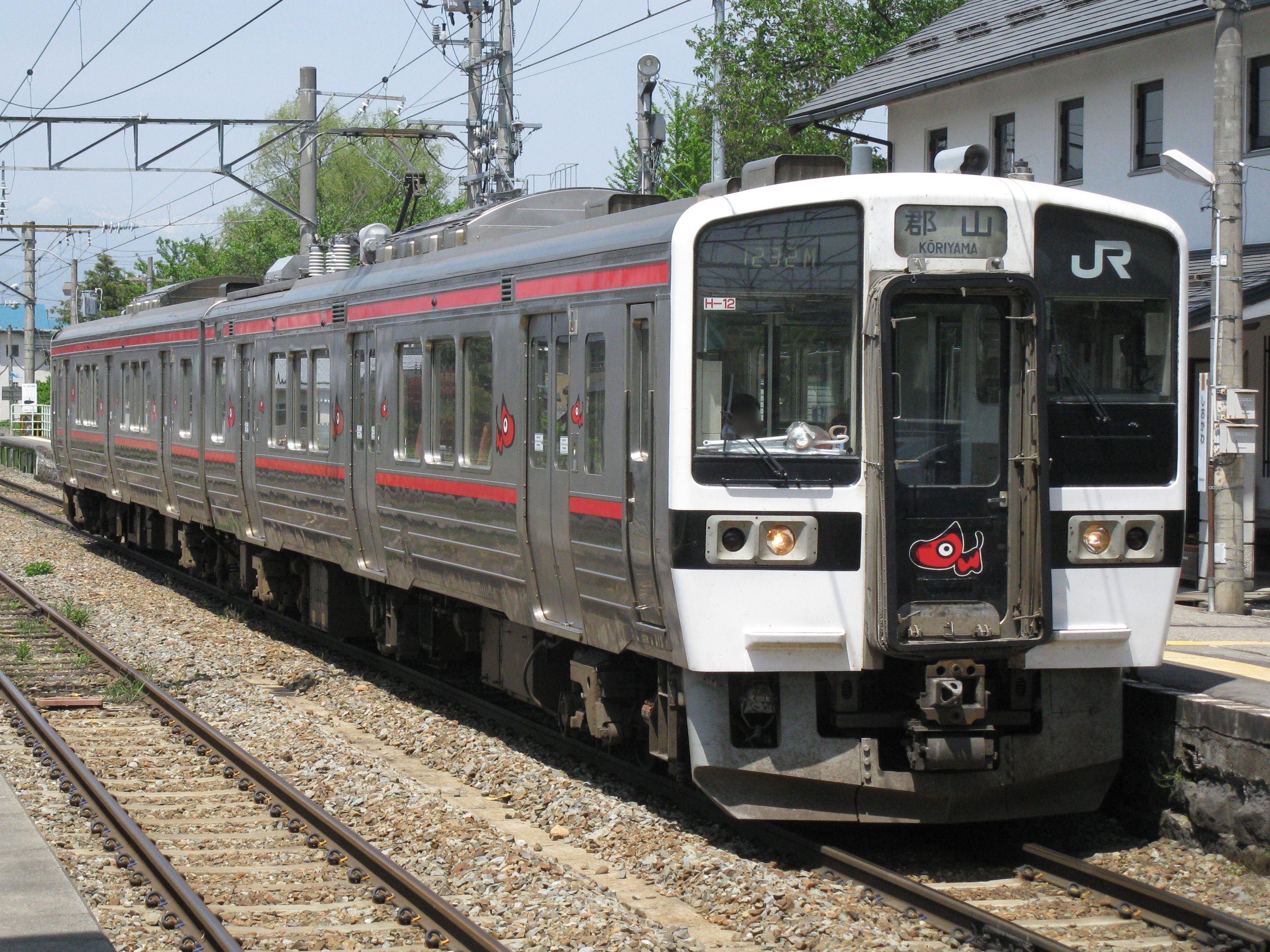 The JR East 719 series H-12 unit